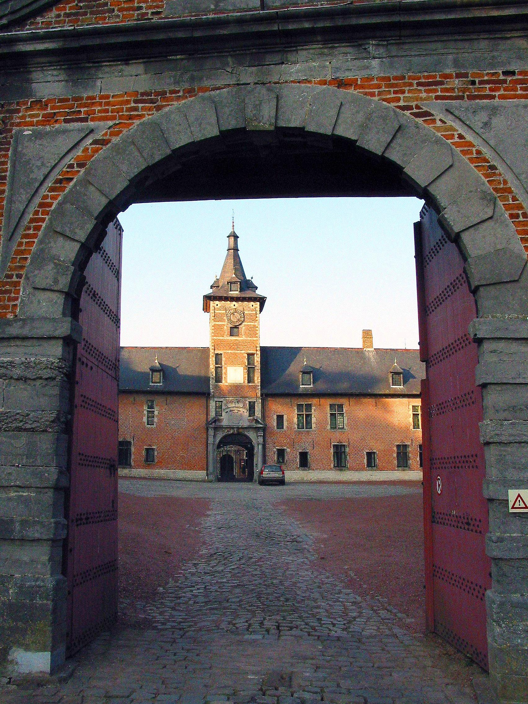 Rixensart (Belgium), the castle of the de Merode family (XVIIth century).